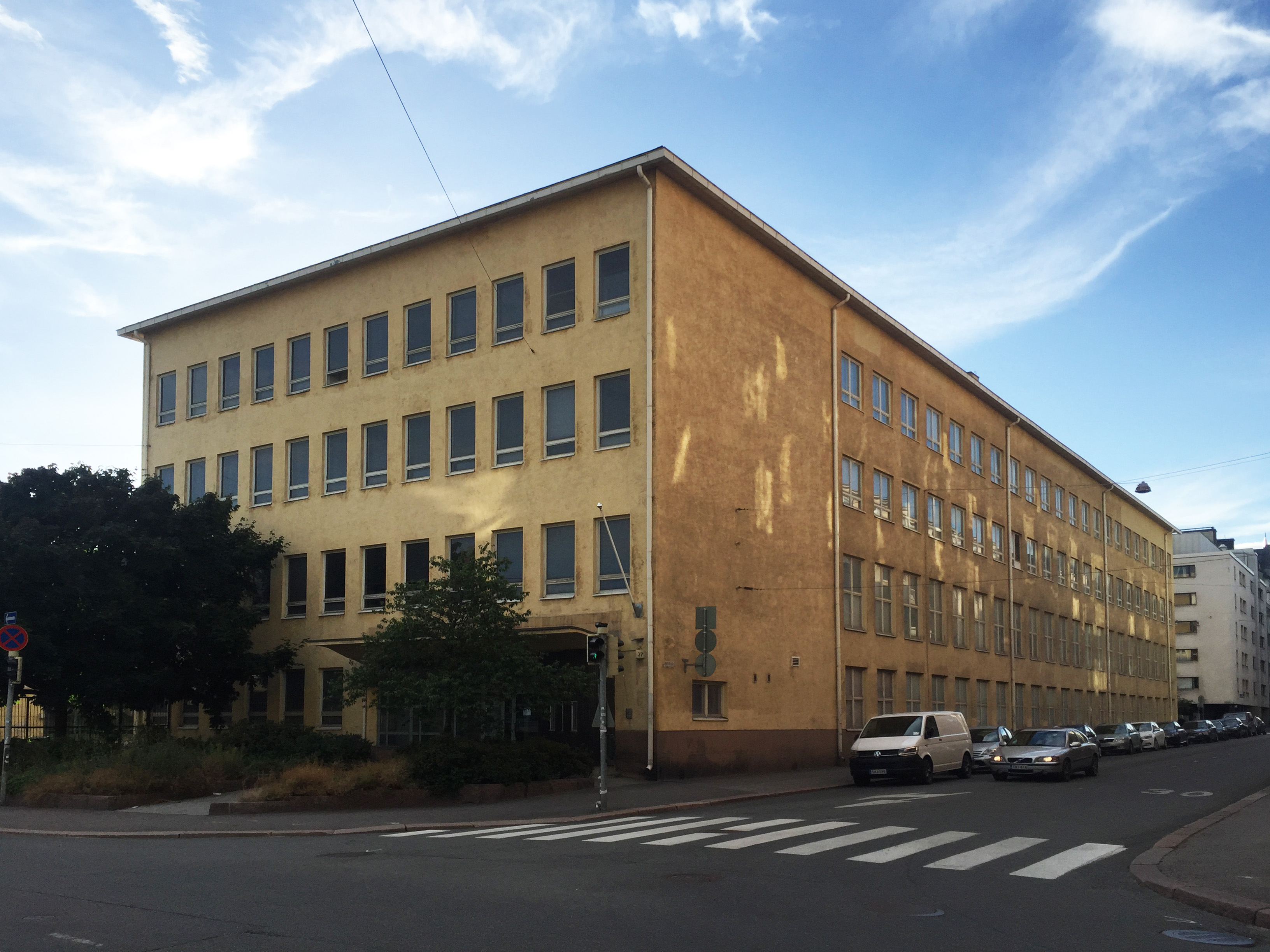 Lönnrotinkatu 37 / Abrahaminkatu 2, Helsinki. Built in 1939. Architect Jussi Paatelan